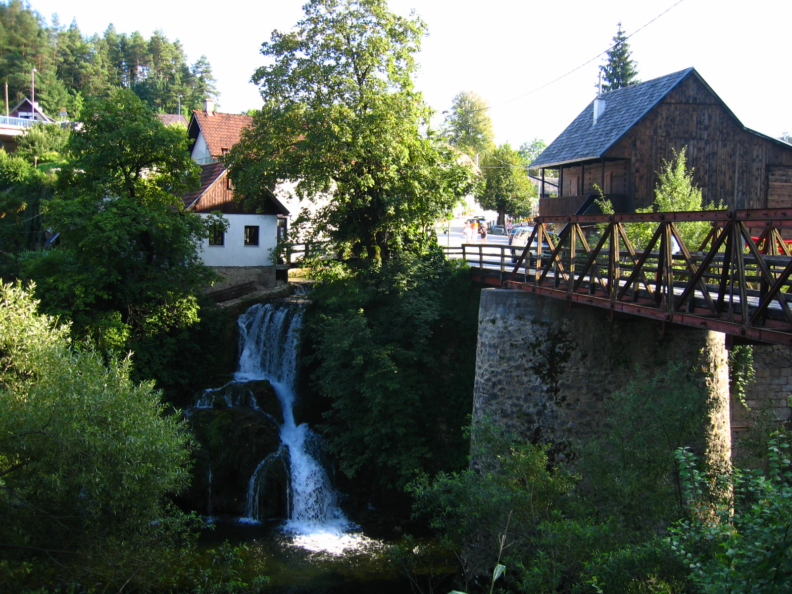 Waterfall in Rastoke, Slunj, Croatia